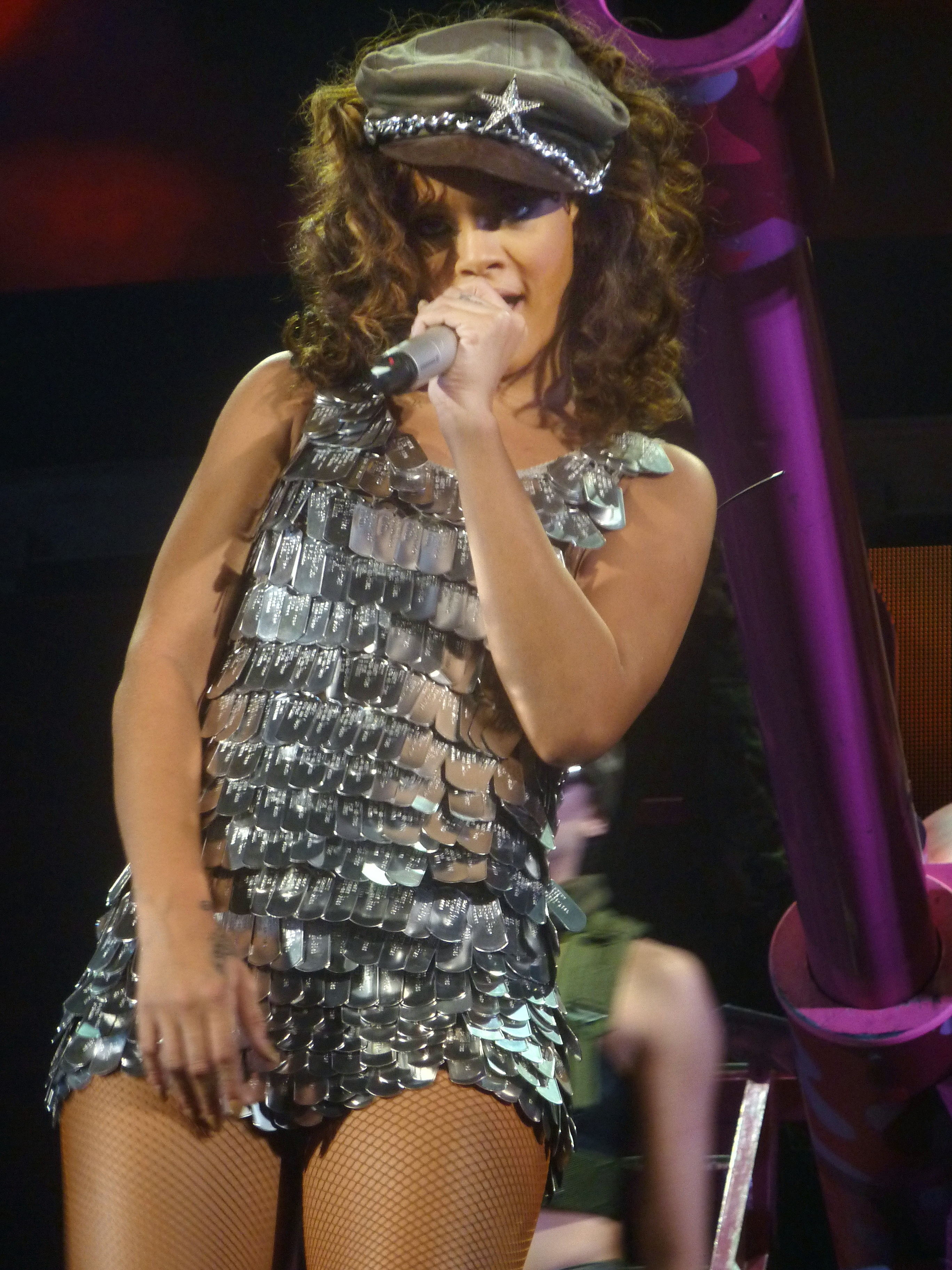 Rihanna in concert at the Paris Bercy during the "Loud Tour" in October 2011.